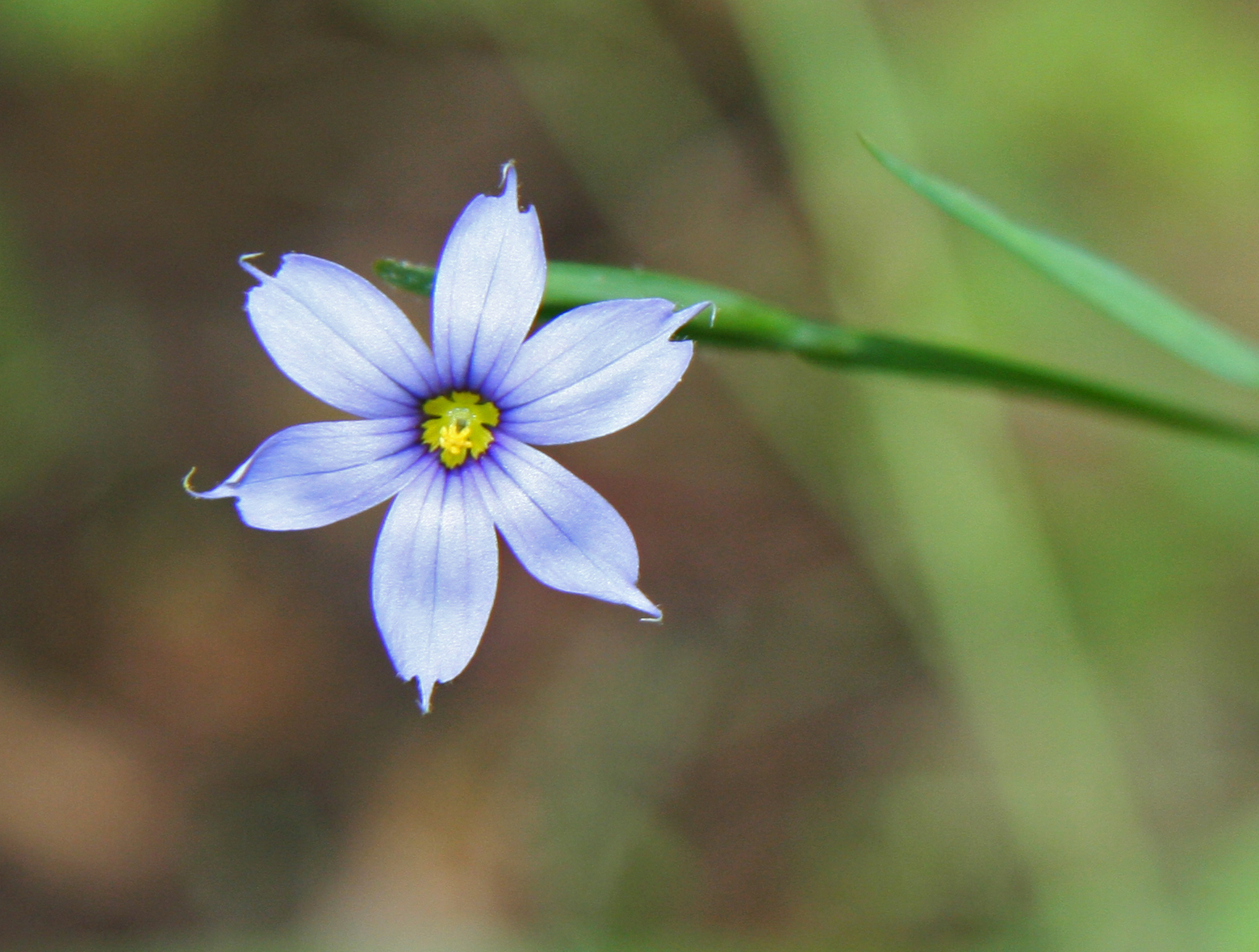 Blue-eyed grass (Sisyrinchium angustifolium) flower closeup, with six blue tepals (3 sepals & 3 petals) veined and prong-tipped, darkening toward the yellow center and 6-fold yellow stigma. Near New Hope Creek, Duke Forest Korstian Division, Durham, North Carolina USA.